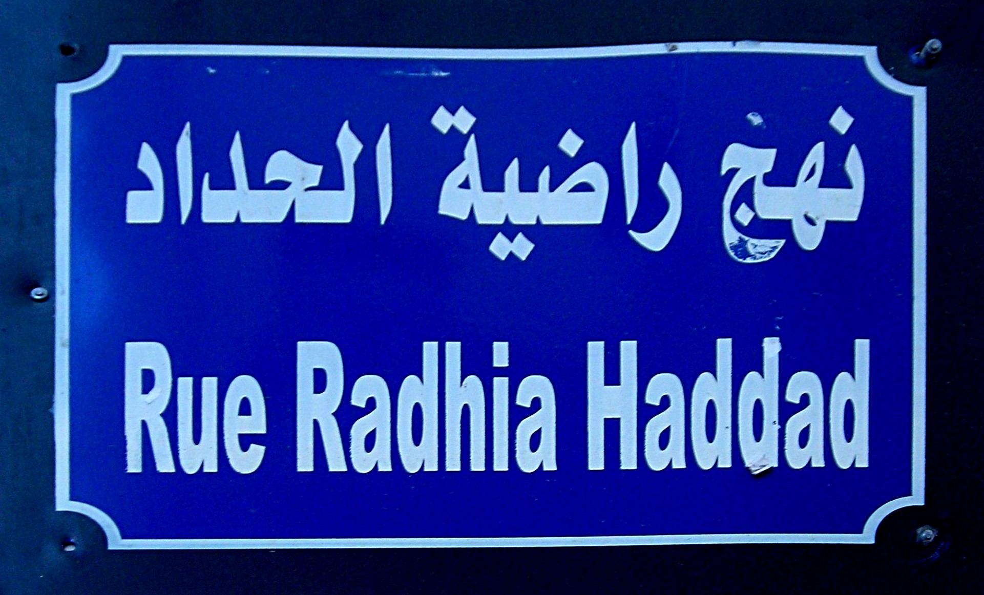 Street Radhia Haddad